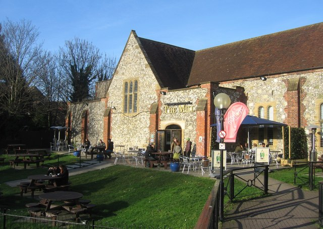 The Mill